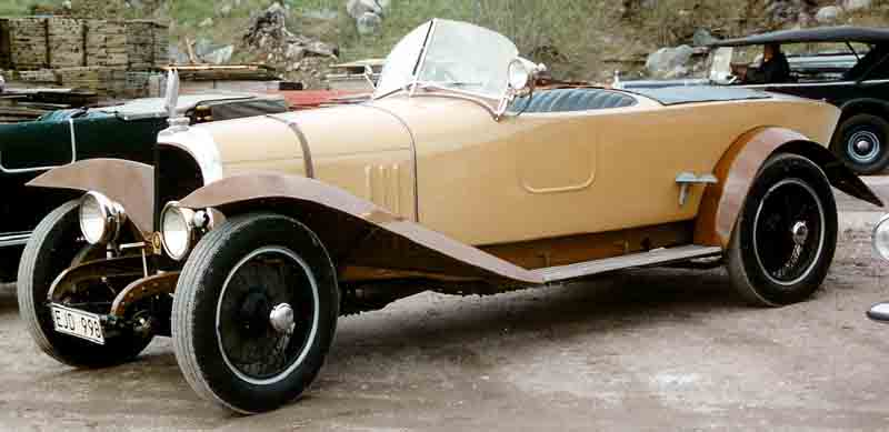 Avions Voisin C5 Tourer in Sweden, chassis number 2008, bodywork by Alfred Belvallette of Paris. Currently with Stiftelsen Bertil Lindblads Bil- och Teknikhistoriska Samlingar.